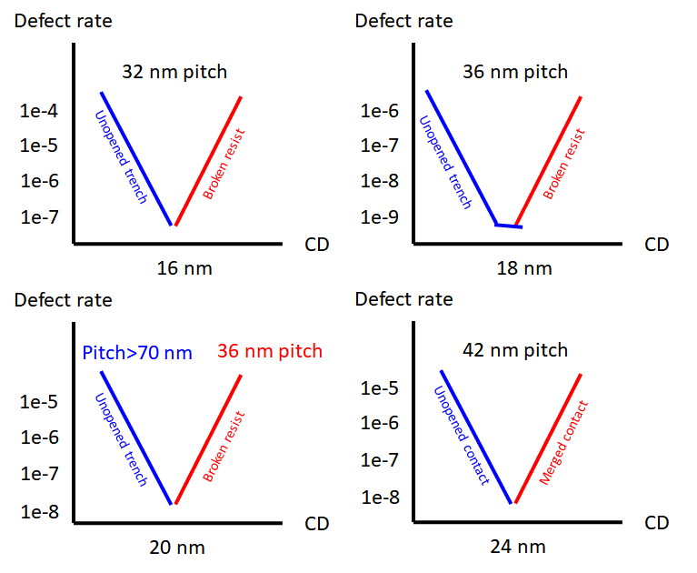 Stochastic defects limit the resolution of EUV. At 36 nm pitch, the defect rate does not drop below a floor level ~1e-9. Unopened trenches at larger pitches become less likely at larger widths, while broken resist lines at dense pitches become more likely at the same time. Stochastic defects apply to contact as well as line patterns. Ref.: P. De Bisschop and E. Hendrickx, Proc. SPIE 10957, 109570E (2019).